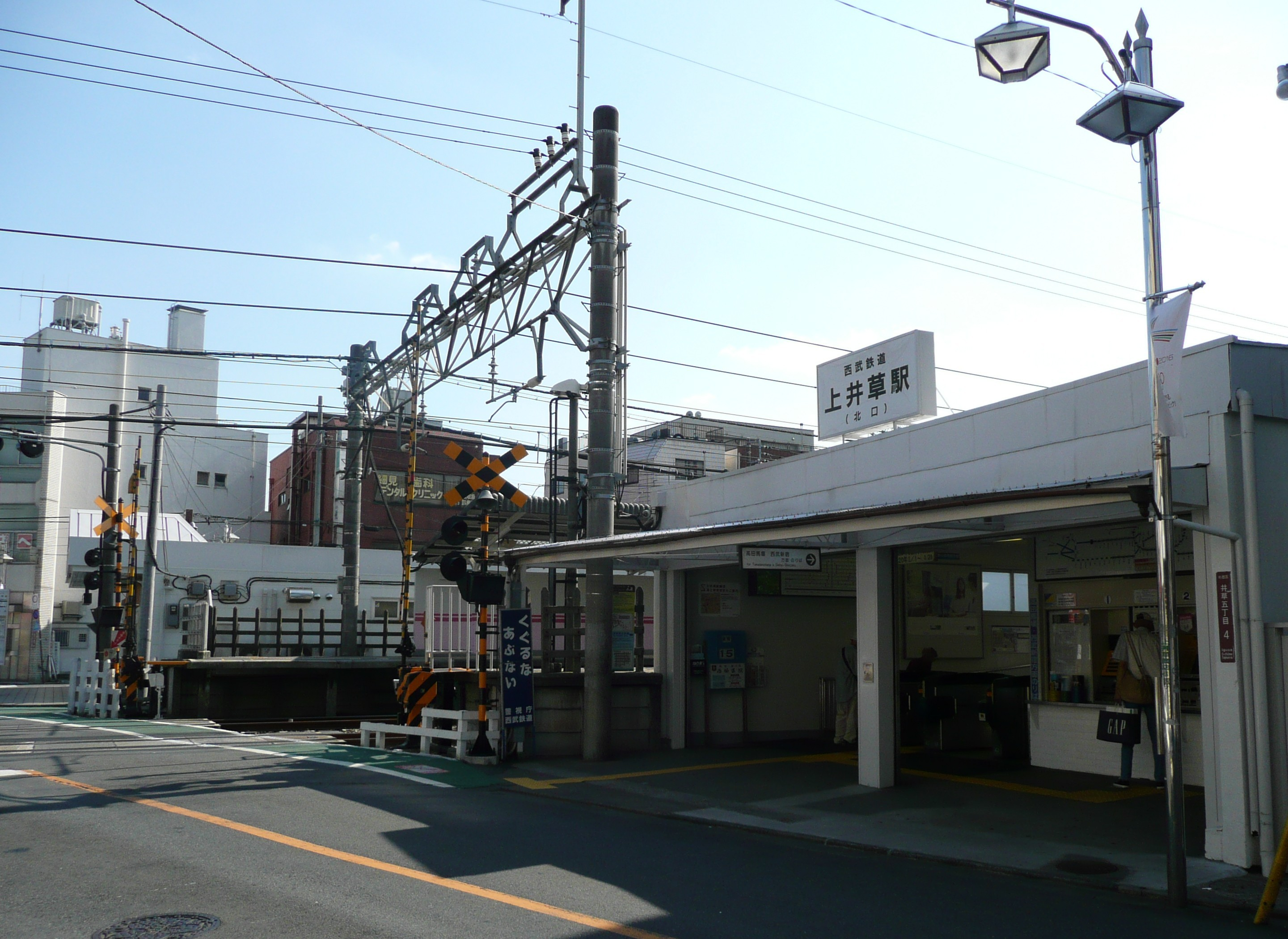 Kami-Igusa Station north side